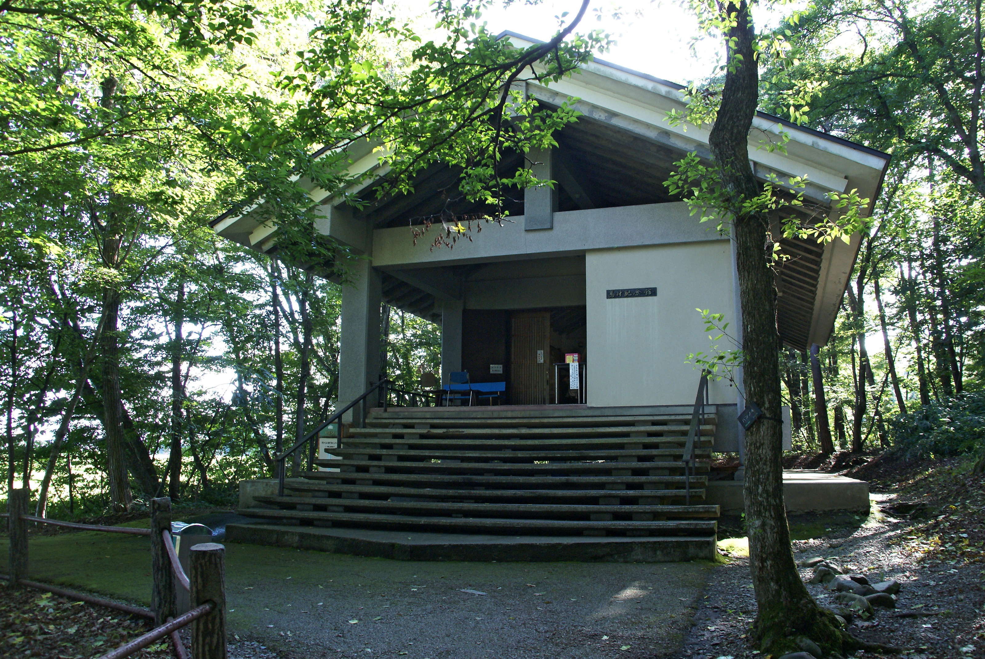 Takamura Memorial Hall in Hanamaki, Iwate prefecture, Japan